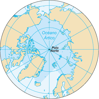 Arctic Ocean map in Spanish